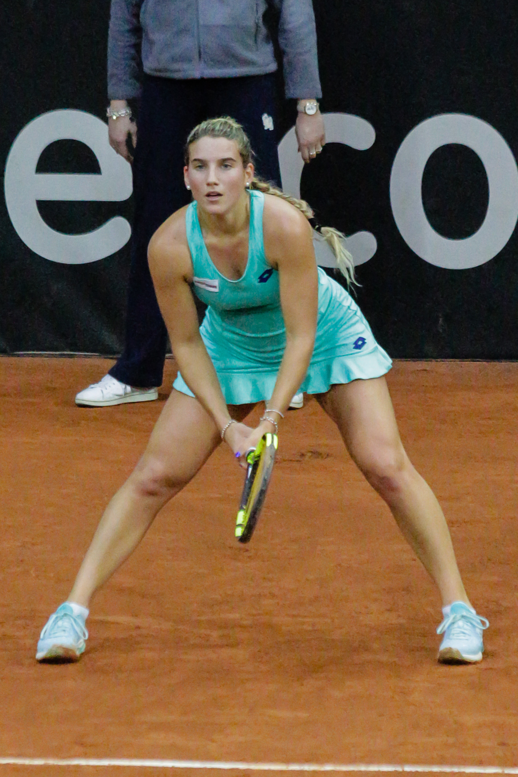 Deborah chiesa during match against Lara Arruabarrena in 2018